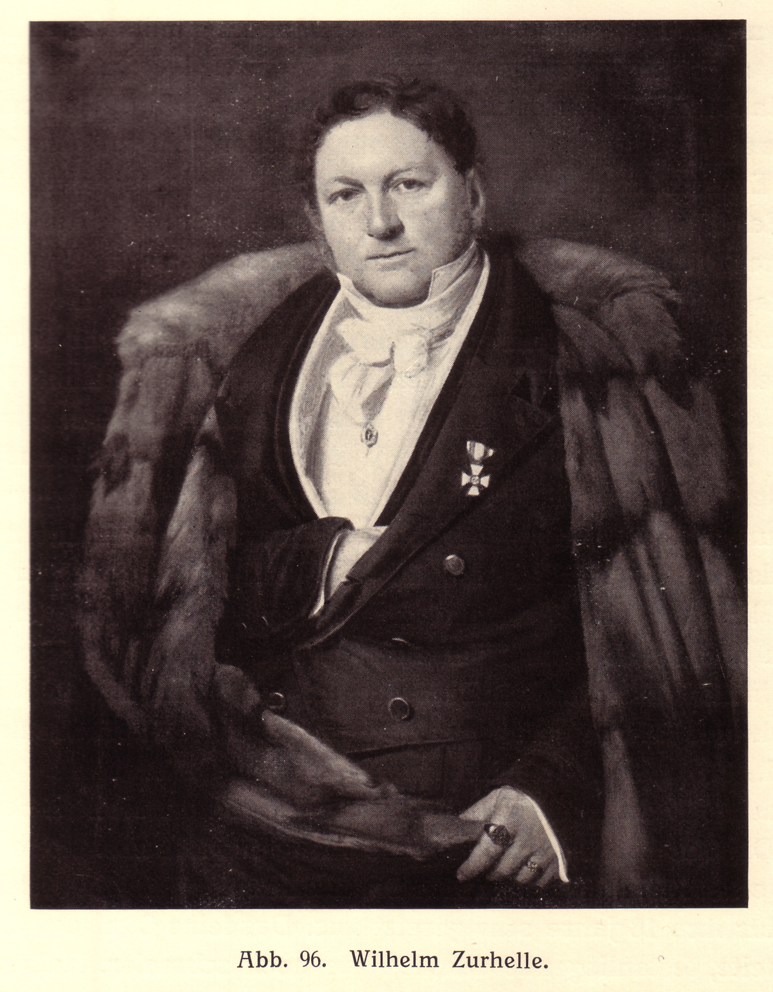 cloth manufacturer, councilor and chairman Gentlemen's Club: Wilhelm (Gilles Egidius) Zurhelle (1786-1849)